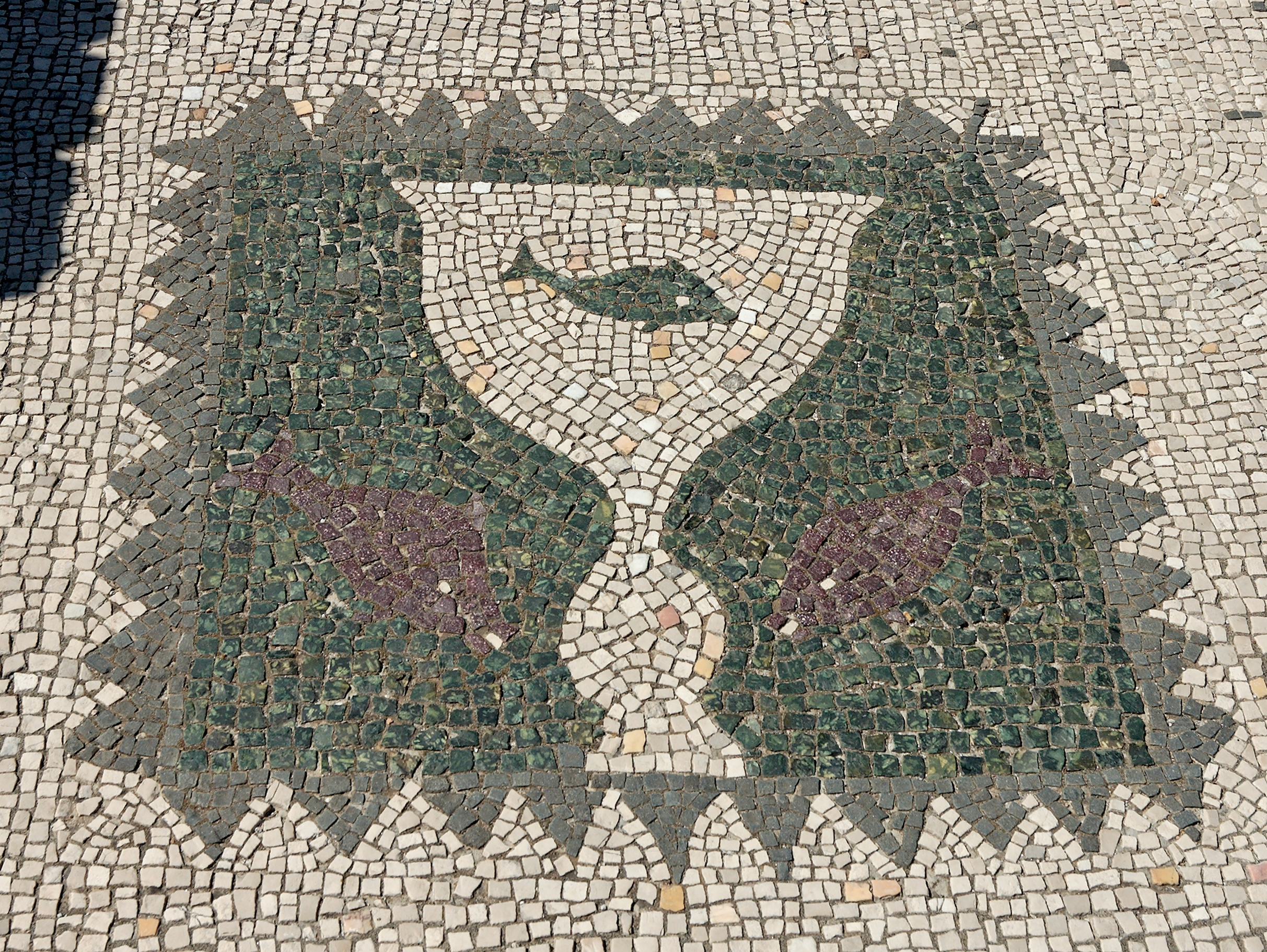 Mosaic with fishes, vestibule A of the Domus dei Pesci (House of the Fishes). Ostia Antica, Latium, Italy.